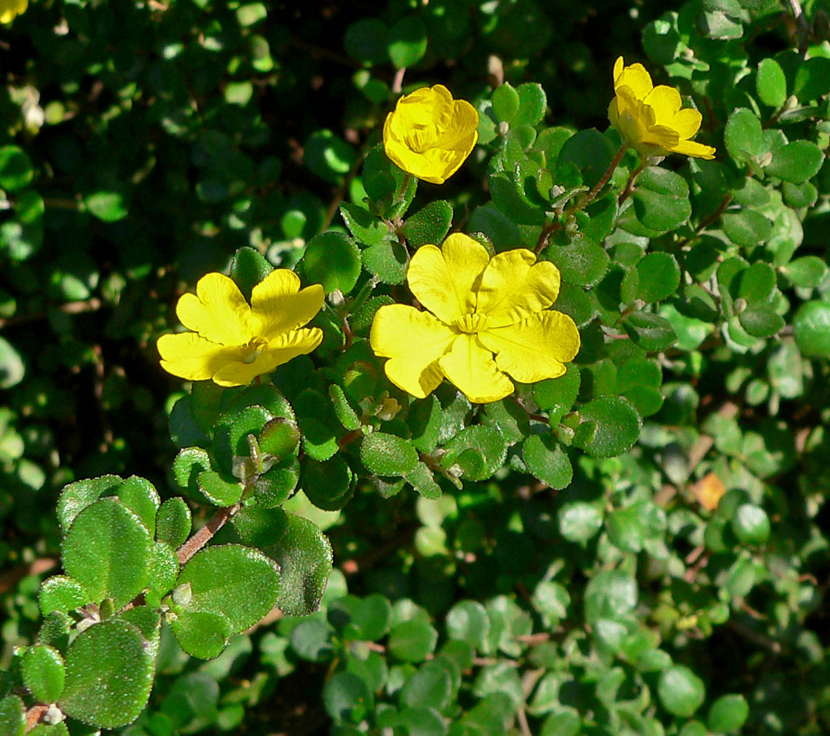 Photo of Hibbertia aspera at the San Francisco Botanical Garden